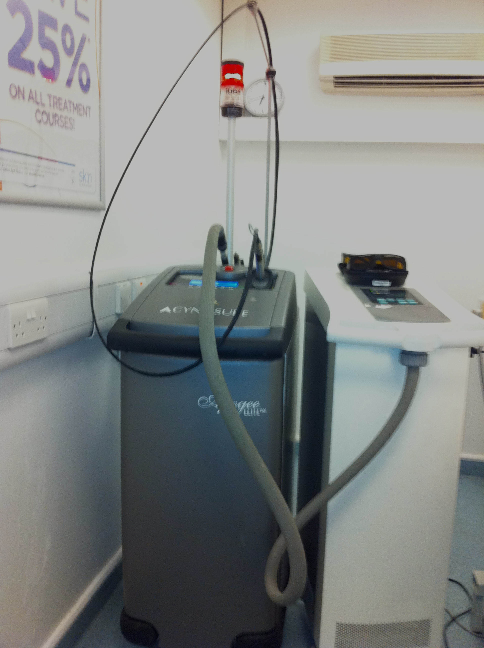 Cynosure Apogee Elite hair removal laser, sneakily photographed. It does two wavelengths - 775nm (the light at the top which is over exposed) and 1064nm. 775nm is alexandrite and for pale skins, and 1064nm is nd:YAG for darker skins.